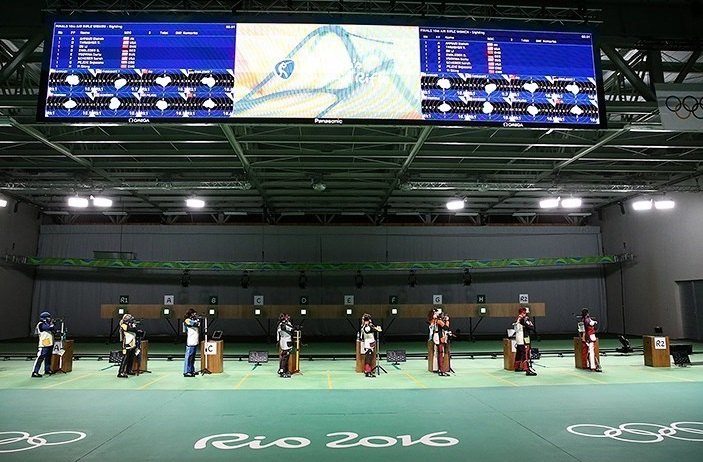 A view down the shooting range at the National Shooting Center in Rio de Janeiro, during the Women's 10 metre air rifle at the 2016 Summer Olympics.